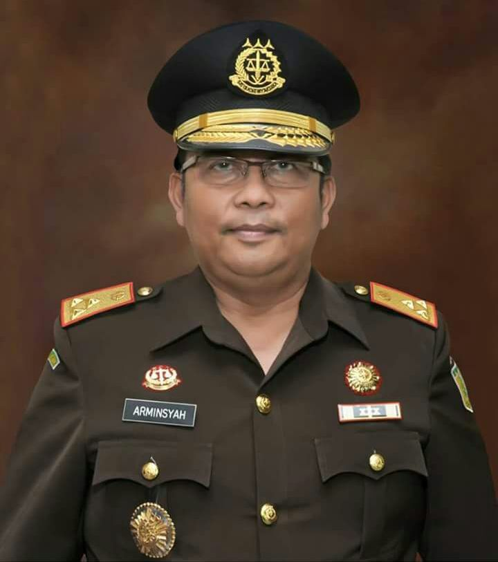 Arminsyah, Deputy Attorney General of the Republic of Indonesia